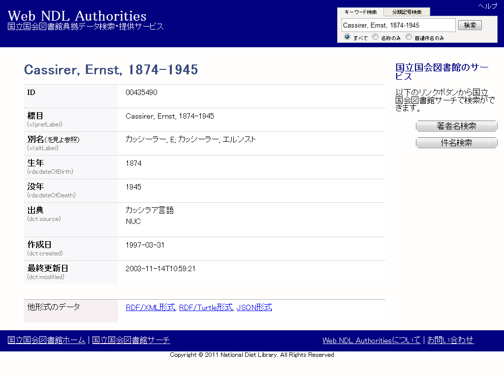 Web NDL Authorities: Screenshot of the website of the National Diet Library (Browser: Chrome, Vers. 19.0).